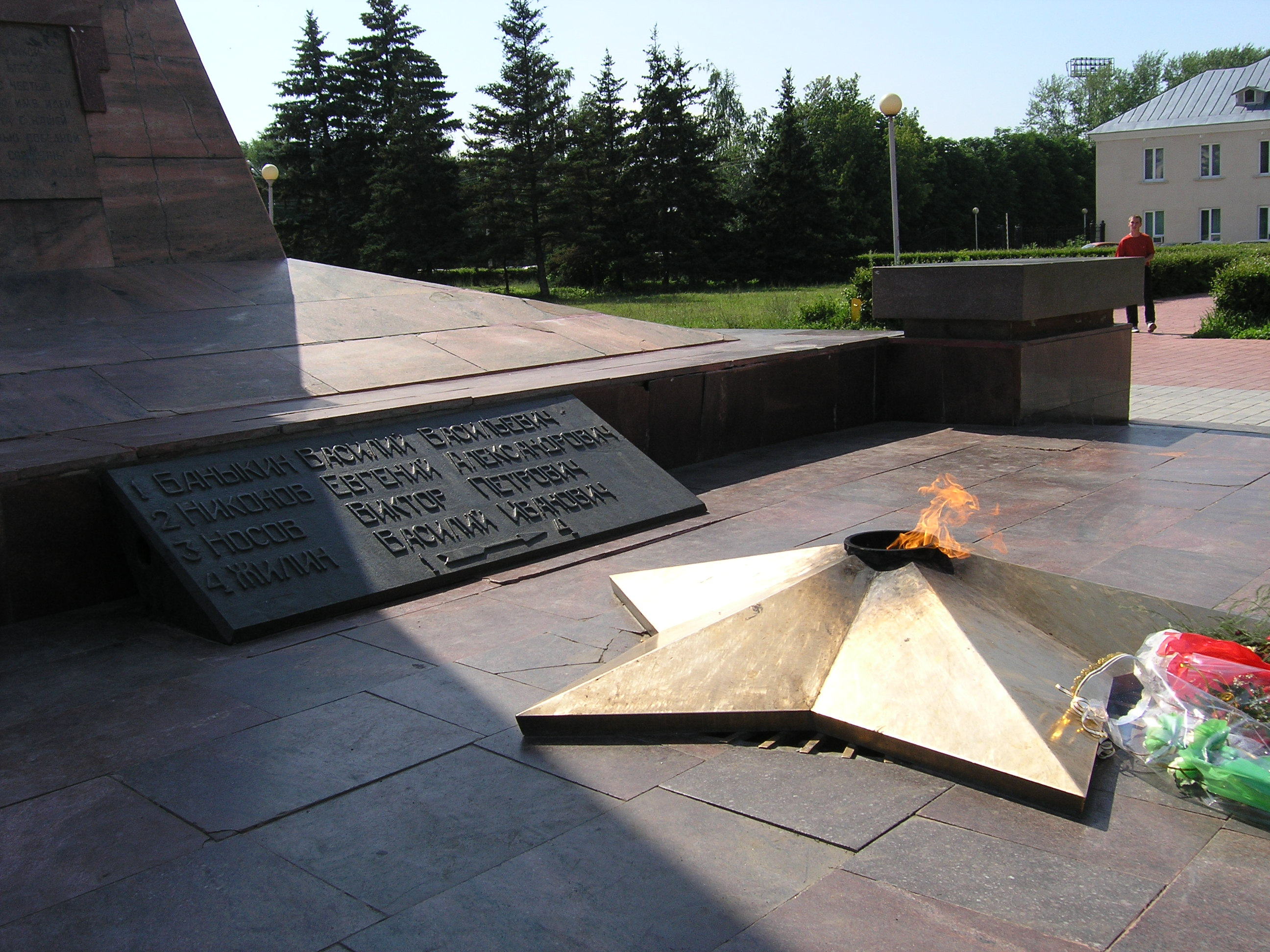 Eternal Flame, Obelisk of Glory, Tolyatty, Russia